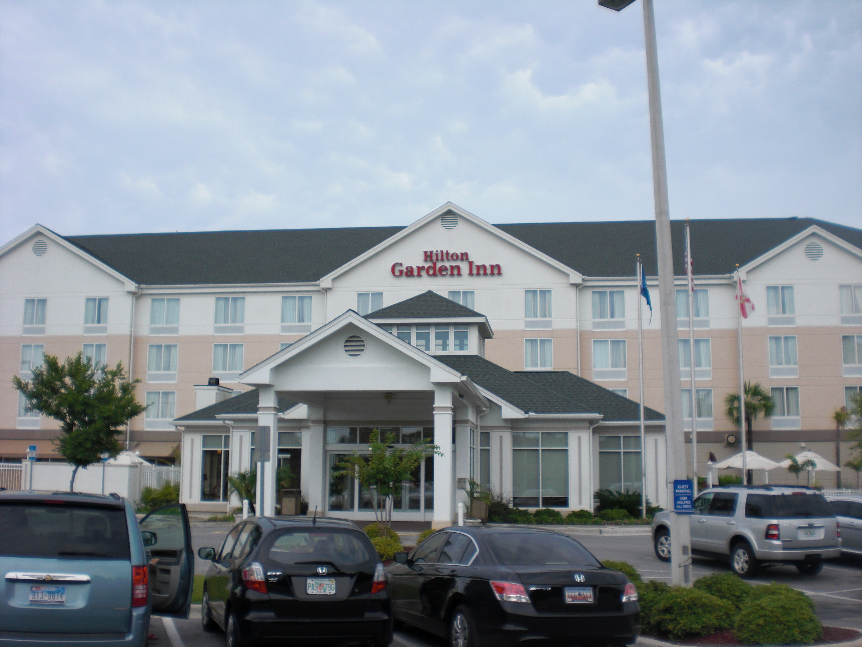 Hilton Garden Inn Panama City, FL